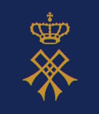 Monogram of HM Queen Anne of Romania